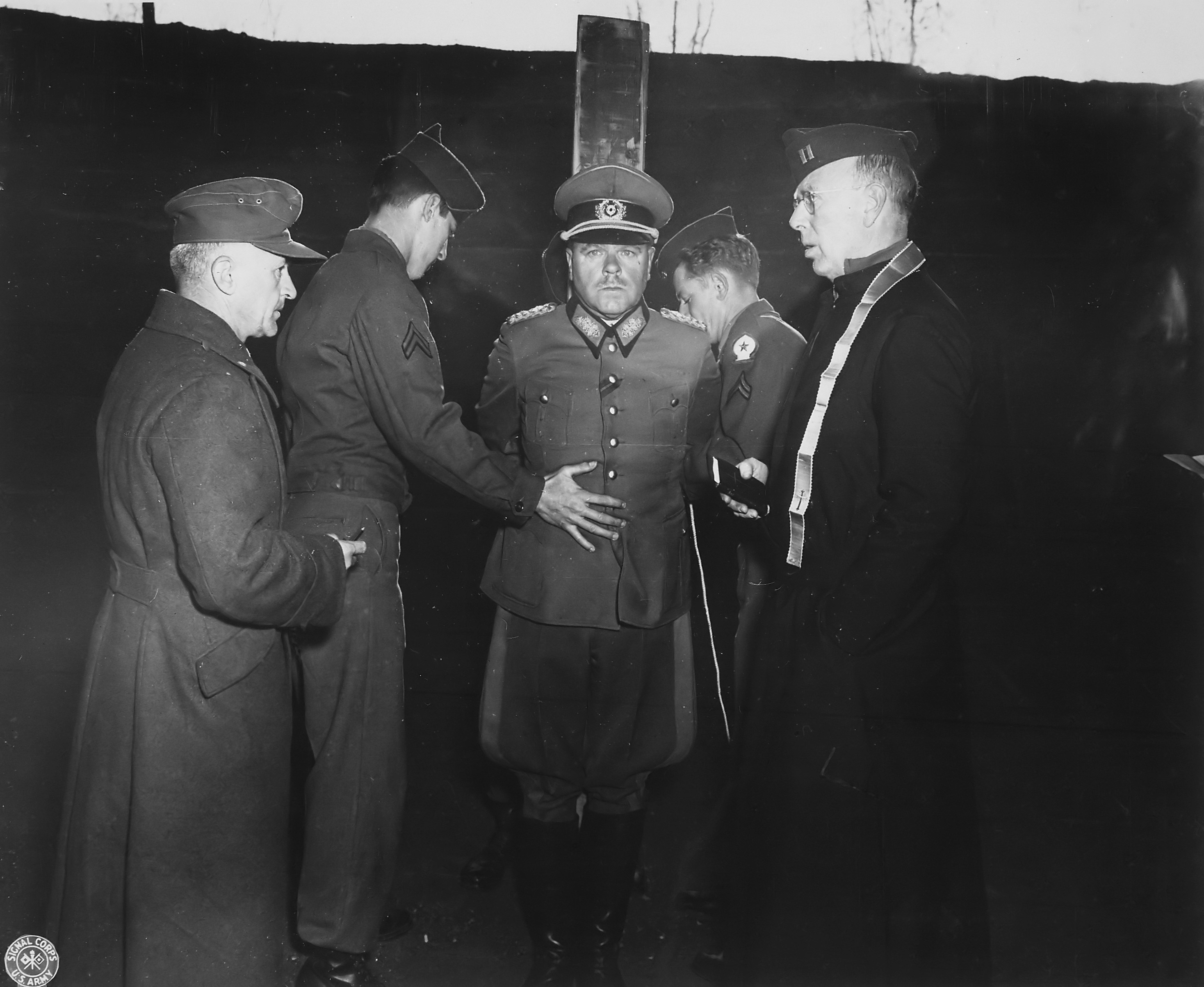 Anton Dostler ARC Identifier: 531326 German General Anton Dostler is tied to a stake before his execution by a firing squad in the Aversa stockade. The General was convicted and sentenced to death by an American military tribunal. Aversa, Italy., 12/01/1945